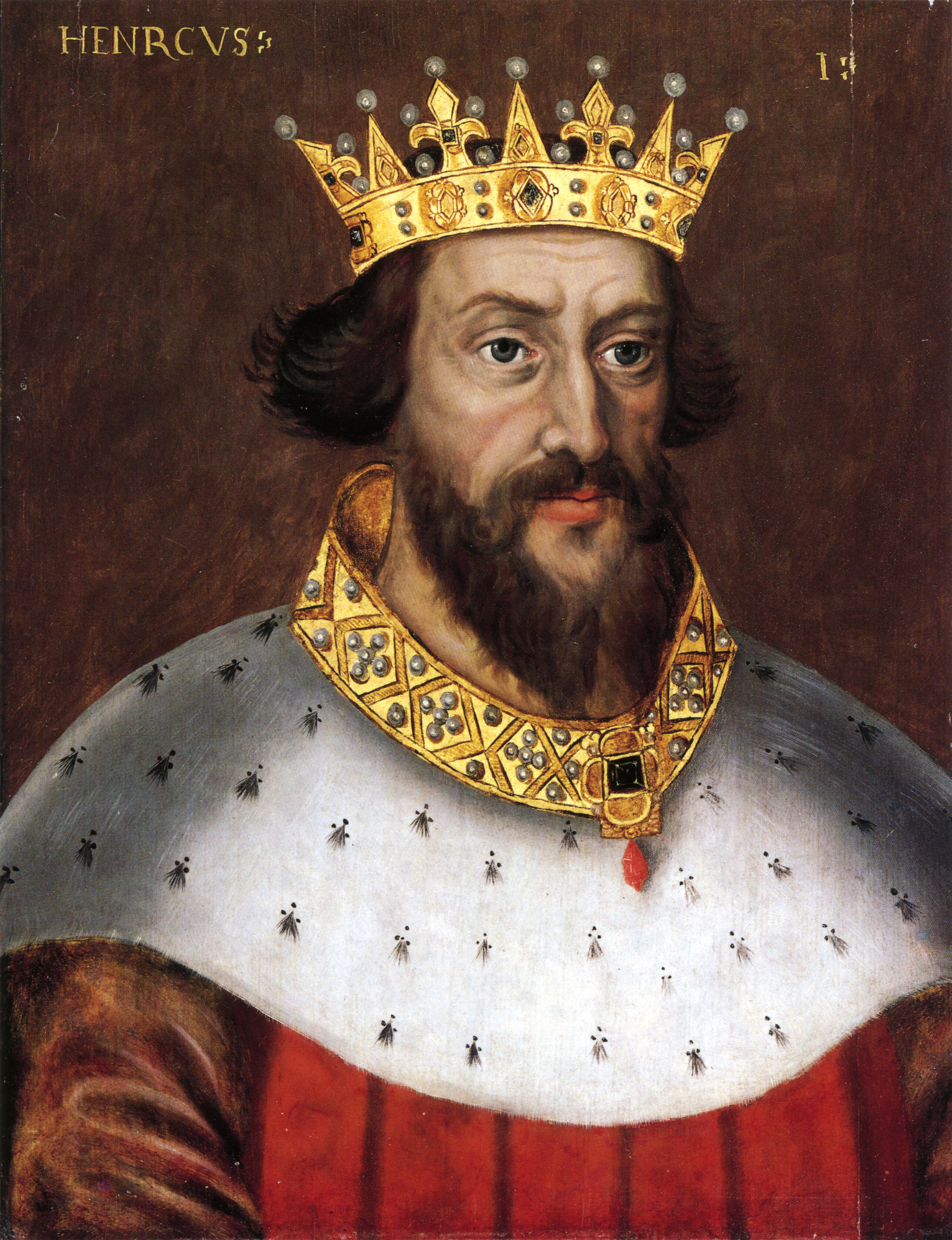 This image is a JPEG version of the original PNG image at File: King Henry I.png. Generally, this JPEG version should be used when displaying the file from Commons, in order to reduce the file size of thumbnail images. However, any edits to the image should be based on the original PNG version in order to prevent generation loss, and both versions should be updated. Do not make edits based on this version. See here for more information. King Henry I, by unknown artist, circa 1620. National Portrait Gallery: NPG 4980(2) While Commons policy accepts the use of this media, one or more third parties have made copyright claims against Wikimedia Commons in relation to the work from which this is sourced or a purely mechanical reproduction thereof. This may be due to recognition of the "sweat of the brow" doctrine, allowing works to be eligible for protection through skill and labour, and not purely by originality as is the case in the United States (where this website is hosted). These claims may or may not be valid in all jurisdictions. As such, use of this image in the jurisdiction of the claimant or other countries may be regarded as copyright infringement. Please see Commons:When to use the PD-Art tag for more information. See User:Dcoetzee/NPG legal threat for original threat and National Portrait Gallery and Wikimedia Foundation copyright dispute for more information. This tag does not indicate the copyright status of the attached work. A normal copyright tag is still required. See Commons:Licensing for more information.